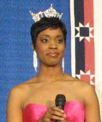 Miss Mississippi performs. Jefferson Jackson Hamer Day Dinner, Canton, Mississippi.